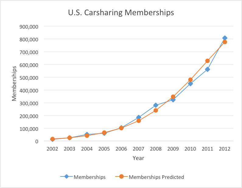 Actual and Predicted Growth of Carsharing in the United States